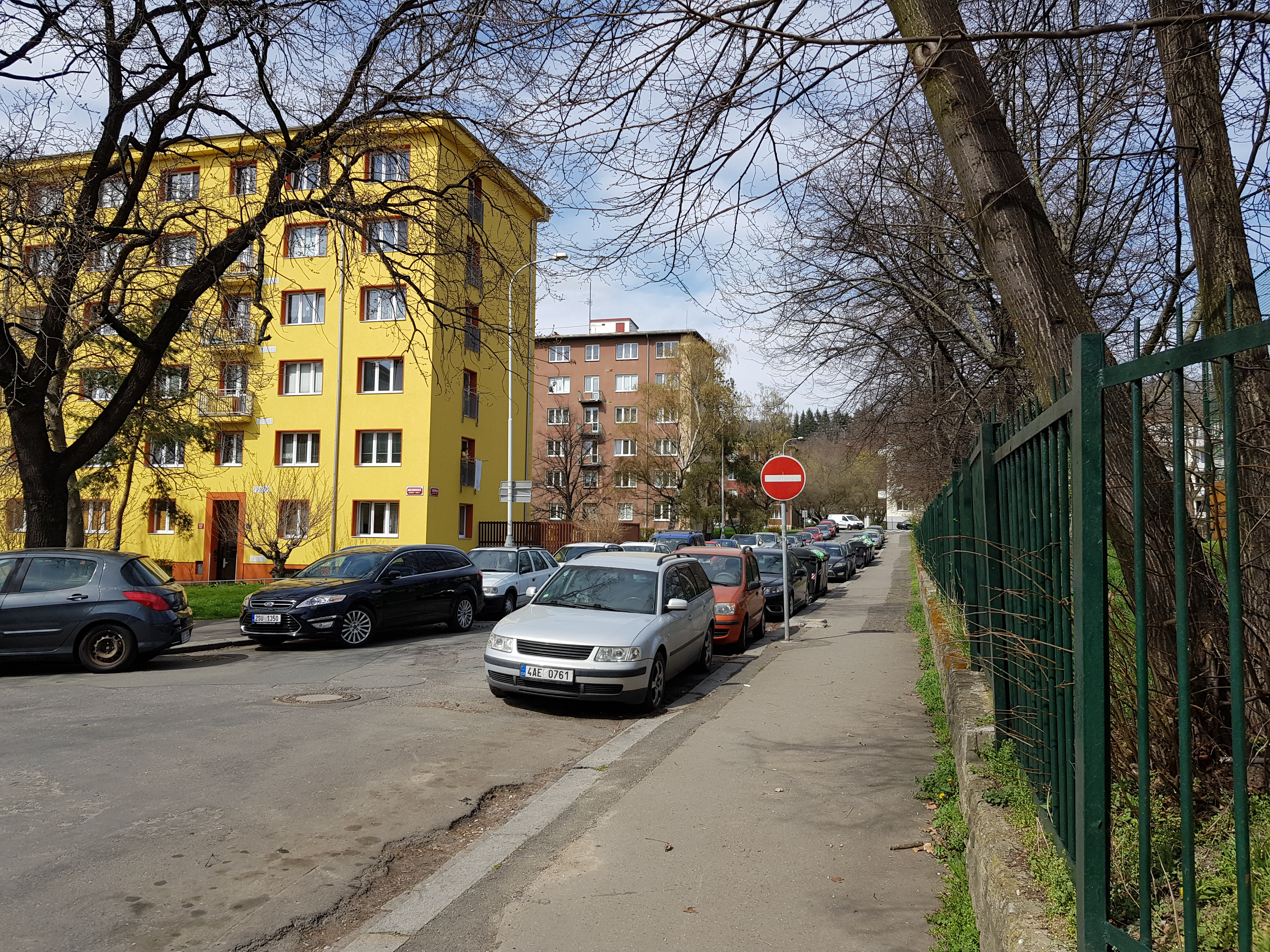 Zámečnická Street, Prague 14 - Hloubětín